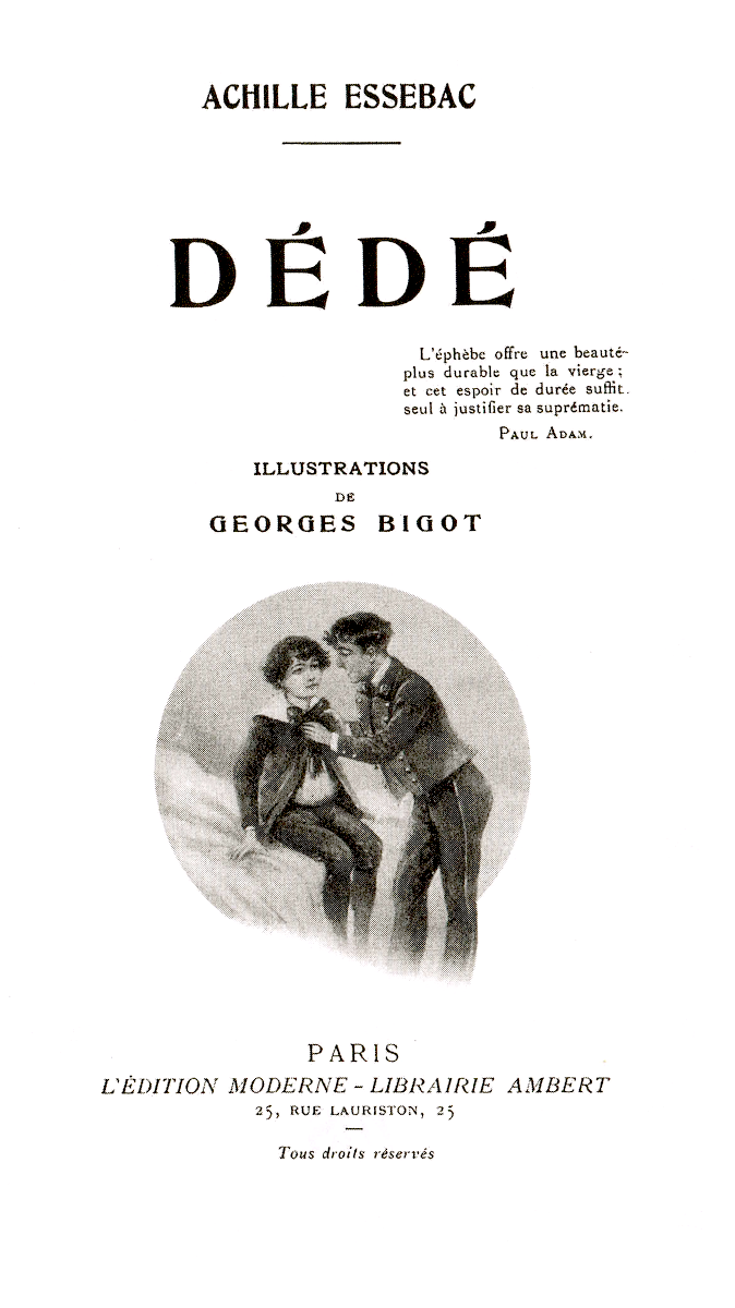 Title page of Dédé by Achille Essebac (1901). Illustrations by Georges Ferdinand Bigot